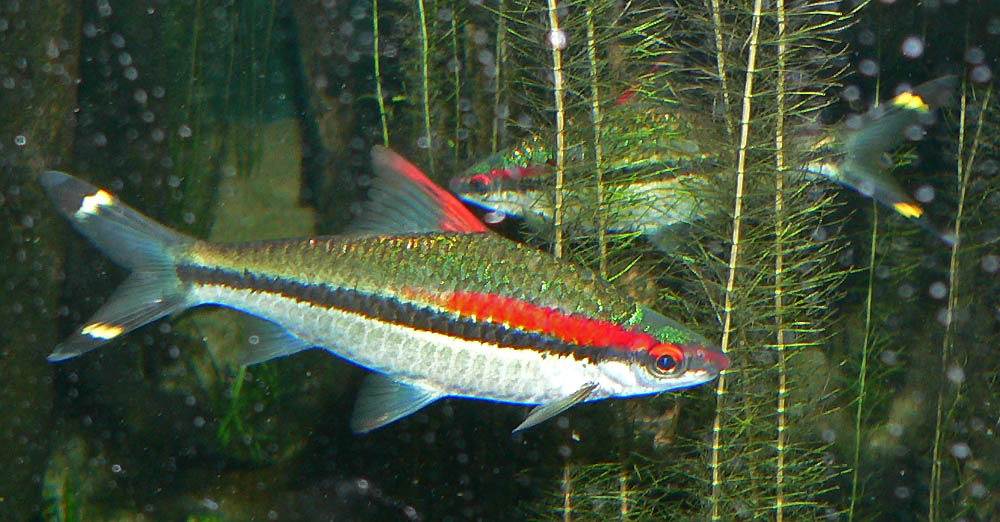 Photo of Puntius denisonii (Denison's barb) at the Vancouver Aquarium